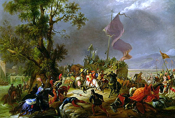 Battle of Legnano